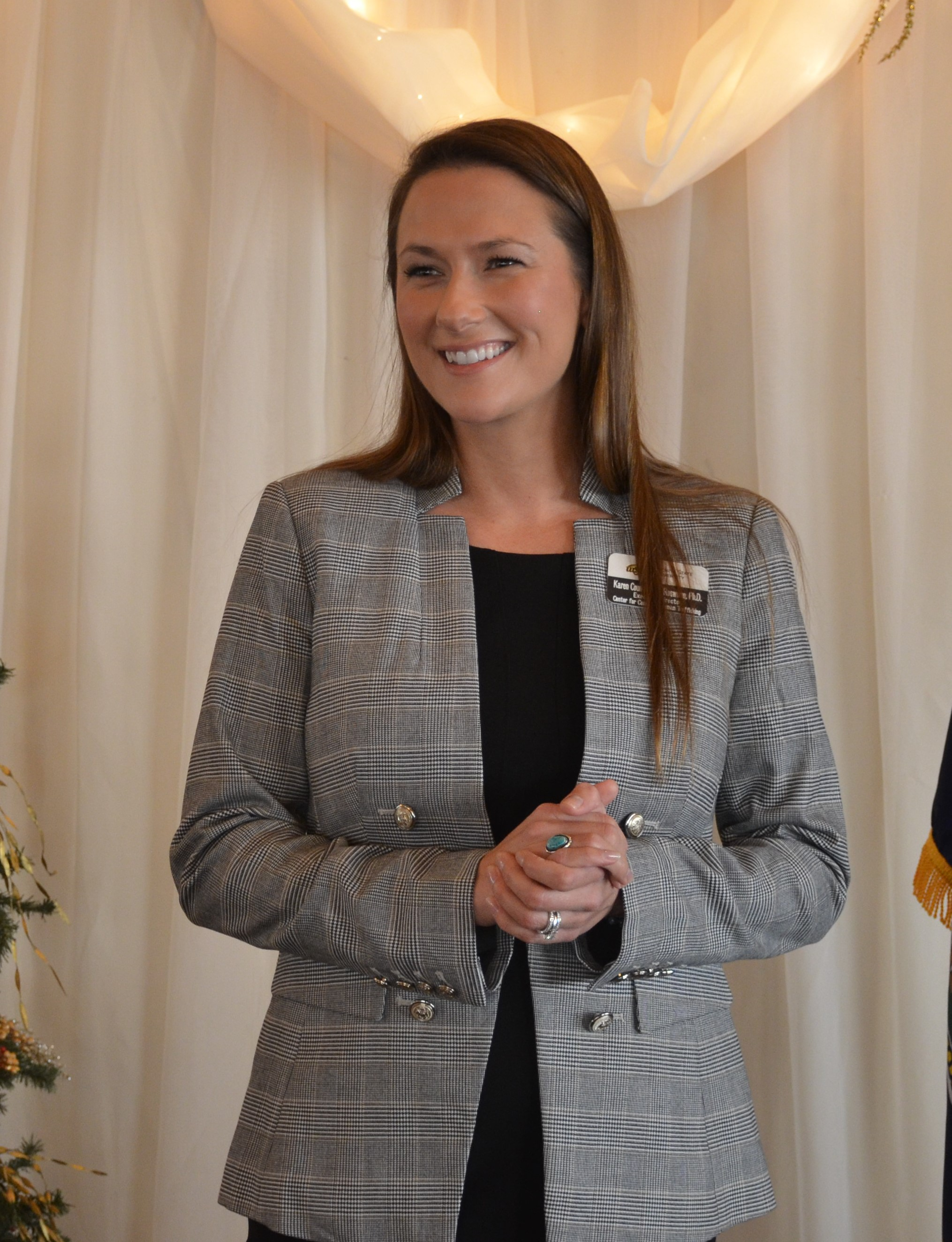 Karen at the Pachyderm Club meeting, Petroleum Club Wichita, KS on December 7th, 2018